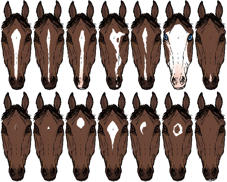 Various markings that are found on the horse's face.